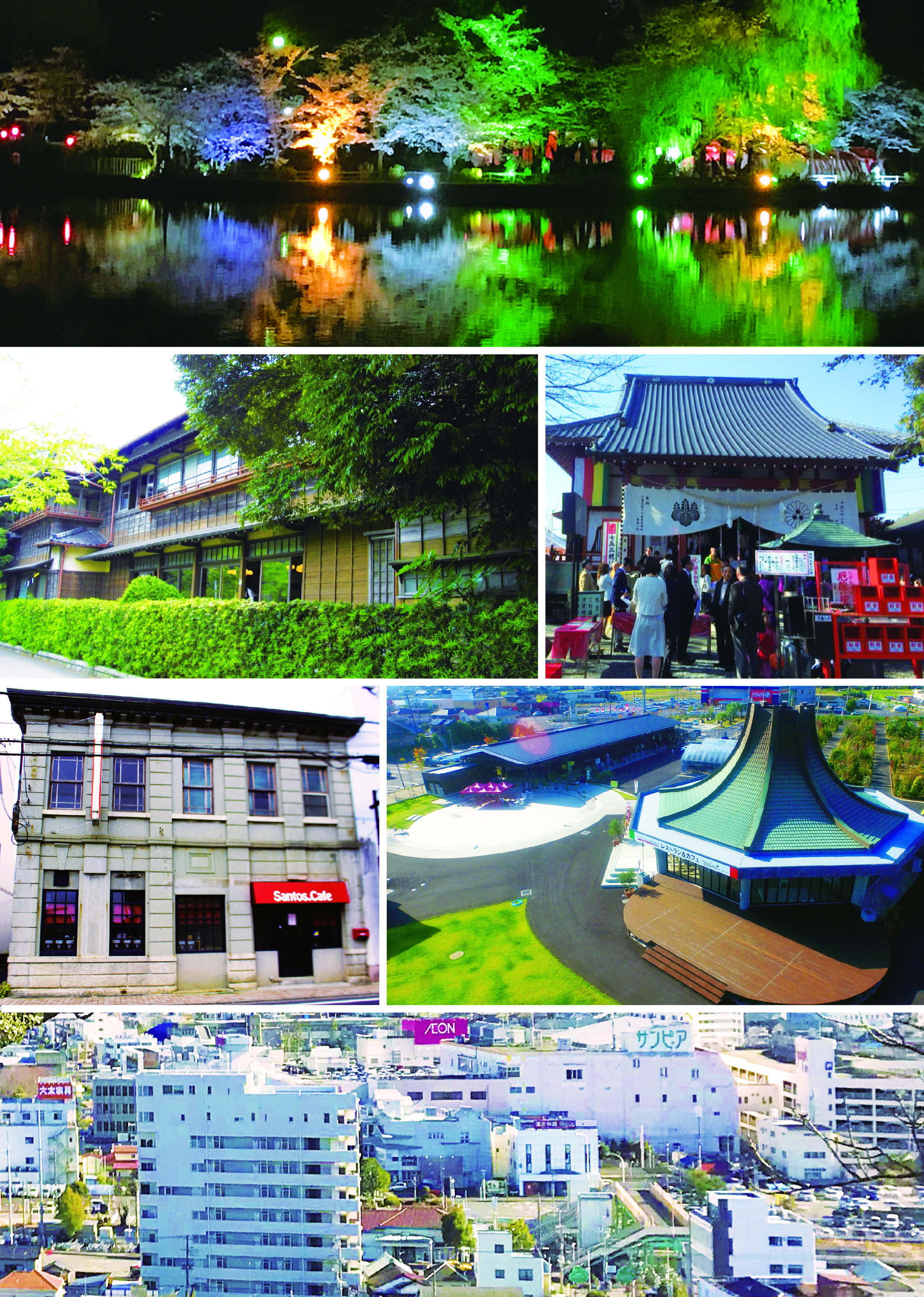 Togane City montage.jpg